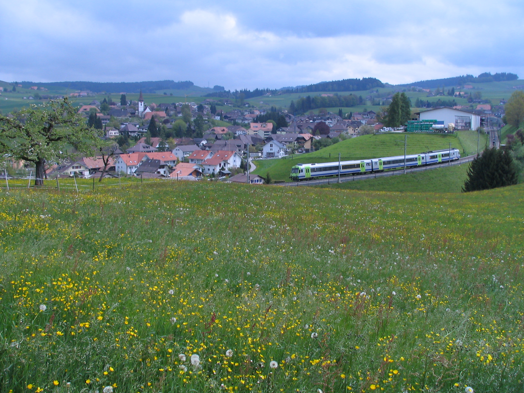 The village Biglen (Canton of Bern, Switzerland) seen from West, with train